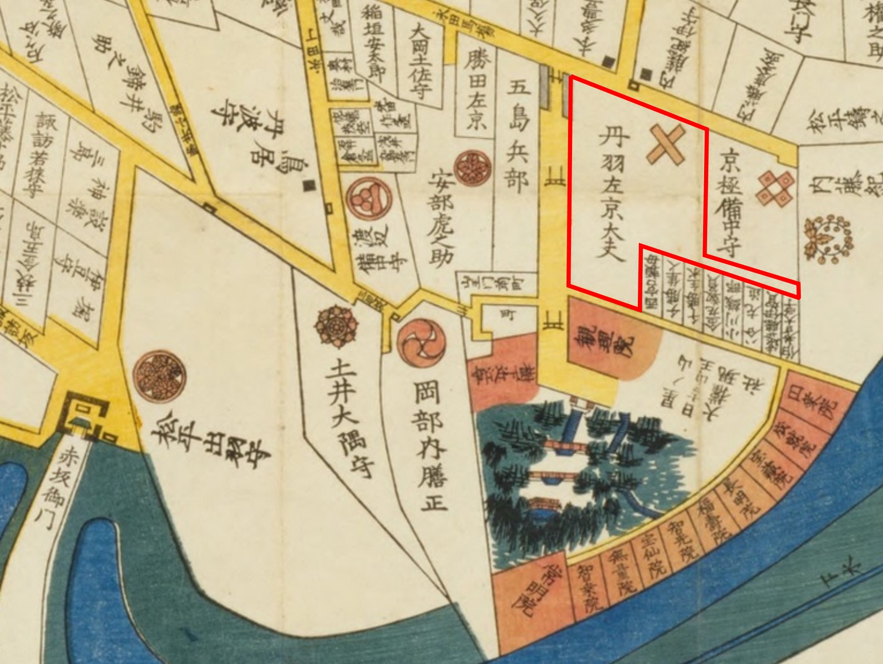 Residene of Niwa lan at Edo